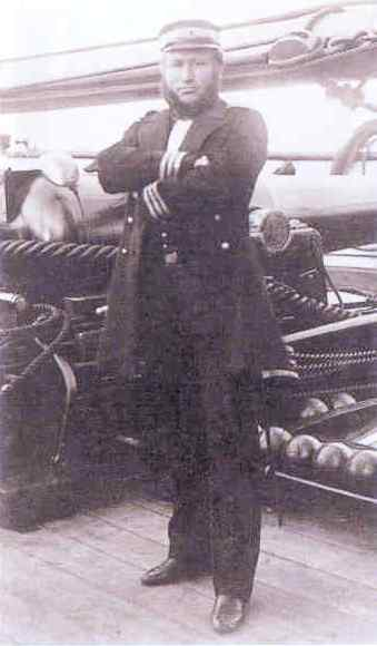 Hans Kuhn, (1824–??), German rear admiral